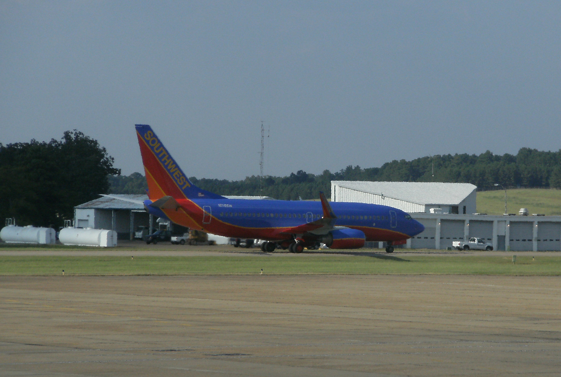 Southwest Airlines Boeing 737 at Jackson-Evers Int'l Airport, Sept 2010